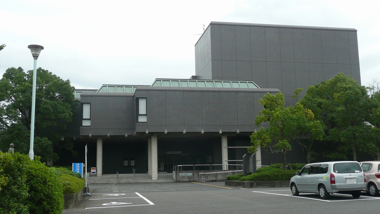 Saga Prefectural Art Museum (Saga, Japan)